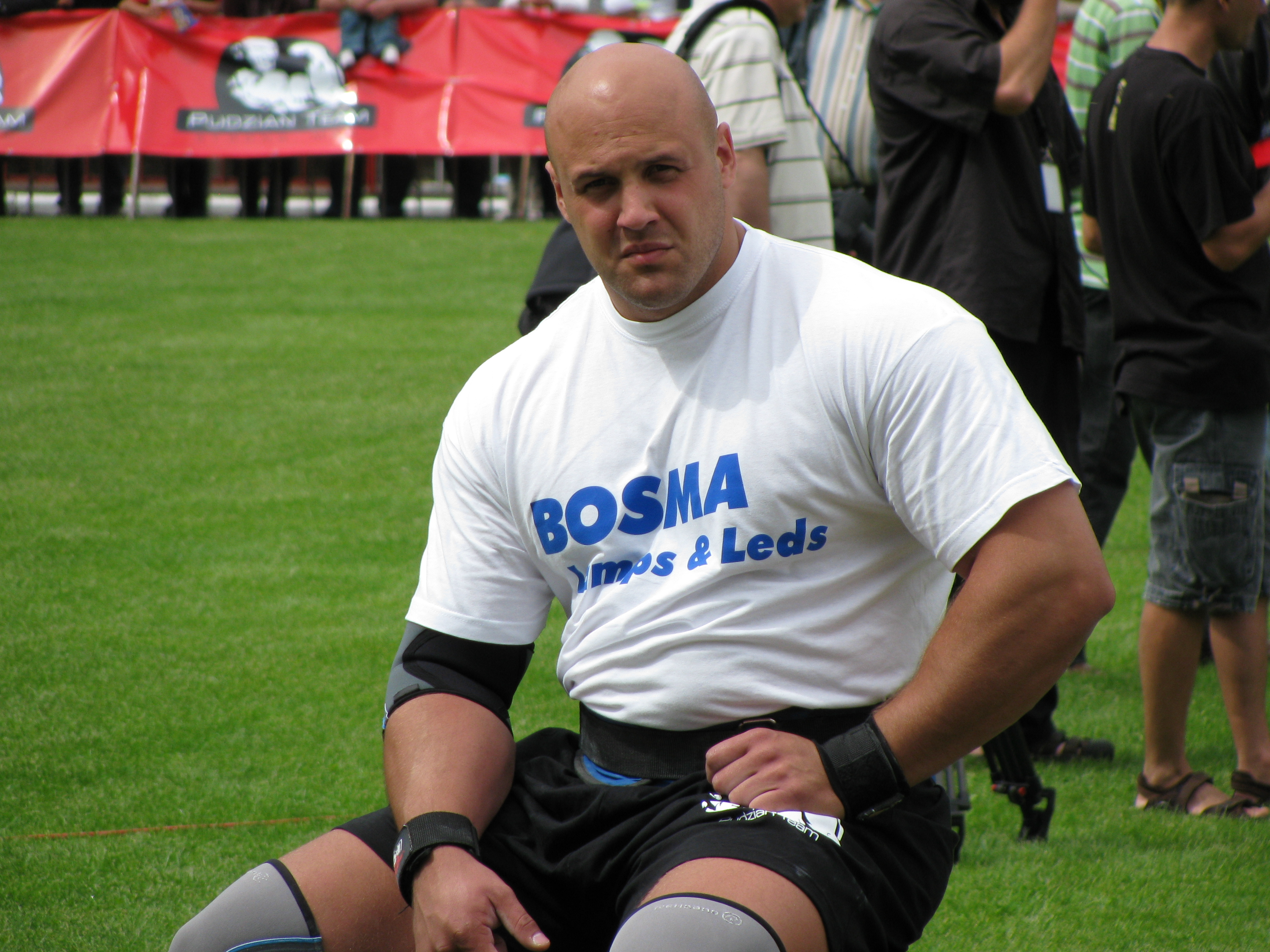 Tomasz Zocholl - a strength athlete from Poland